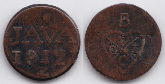 Coin 1 Duit, 1735, Dutch East Indies. The island of Java, the British occupation. Minted for the British United East India Company. Copper. Diameter 20.8 mm, weight 2.52 g.